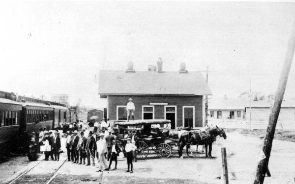 The original Pensacola and Atlantic Railroad depot at Milton, Florida, constructed 1882. Source gives a date of "Between 1900 and 1919" for this photograph, hence believed to be in the public domain.